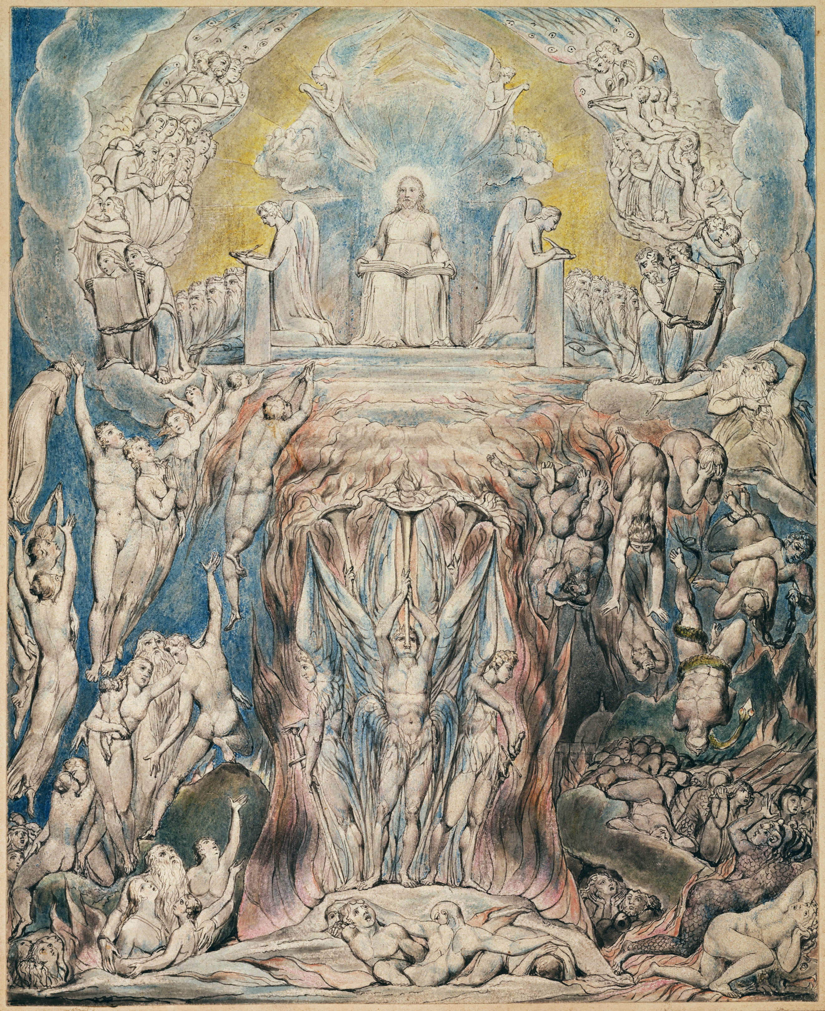 Illustrations to Robert Blair's The Grave , object 12 The Day of Judgment